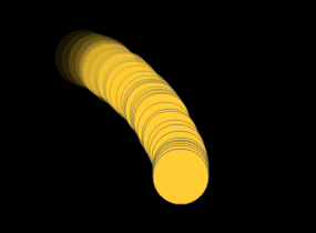 A Wuslon (Zini) from the German TV show "Spaß am Dienstag"